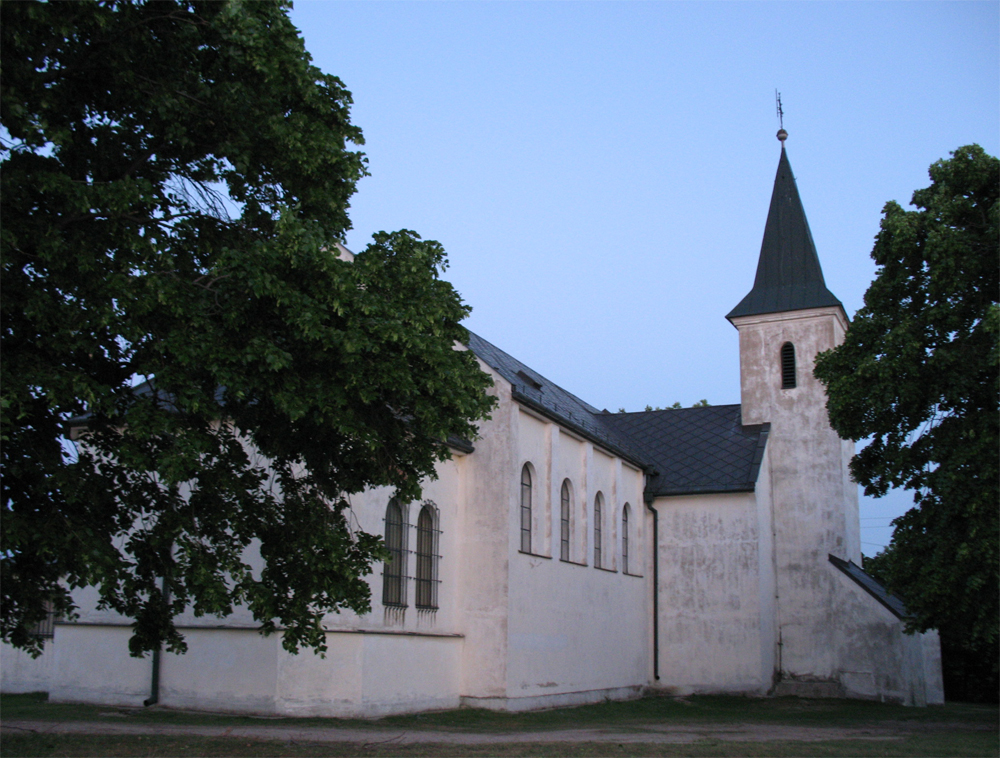 Church of Kolíňany